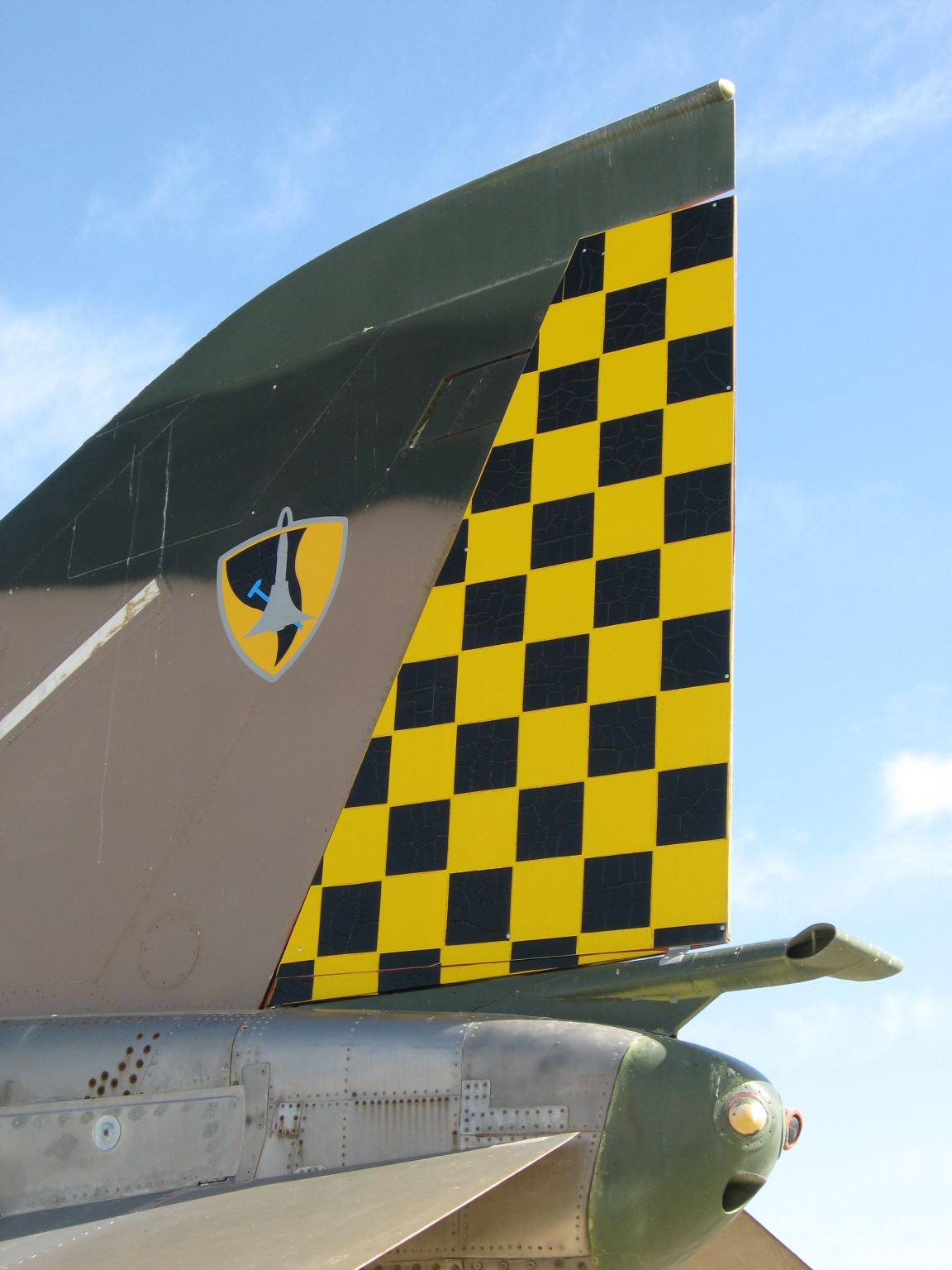 Checkered tail and unit badge of Israeli Air Force 69 squadron F-4 Phantom II at the Israeli Air Force Museum in Hatzerim